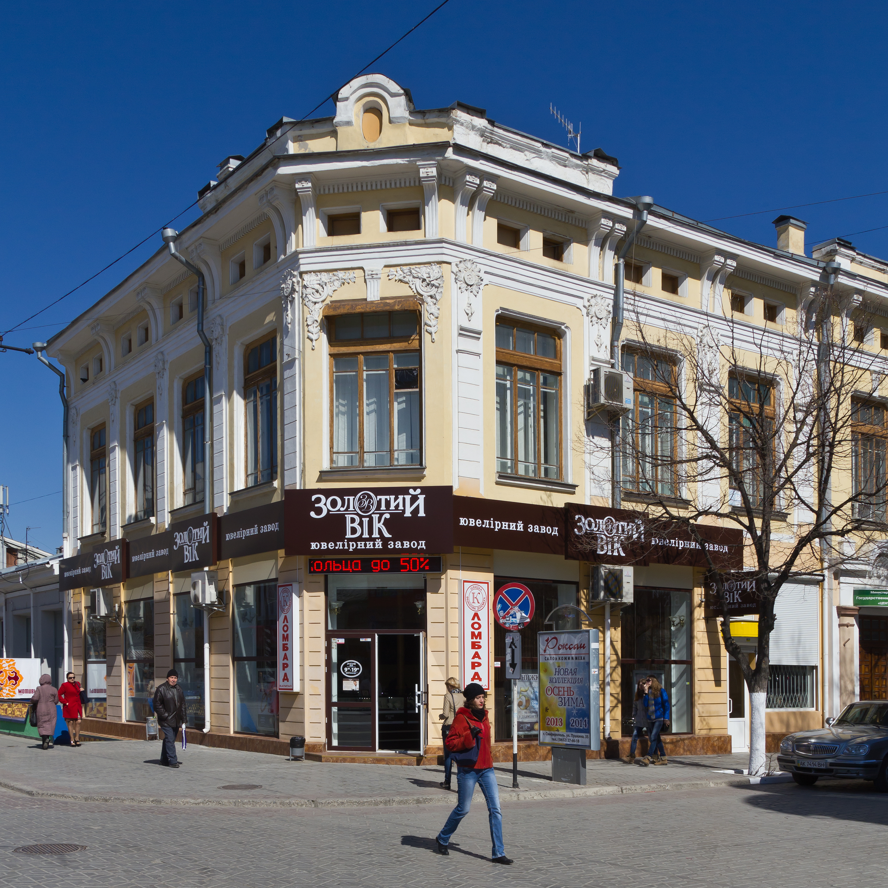 Old building at the Karl Marx Street in Simferopol, Crimean Peninsula.